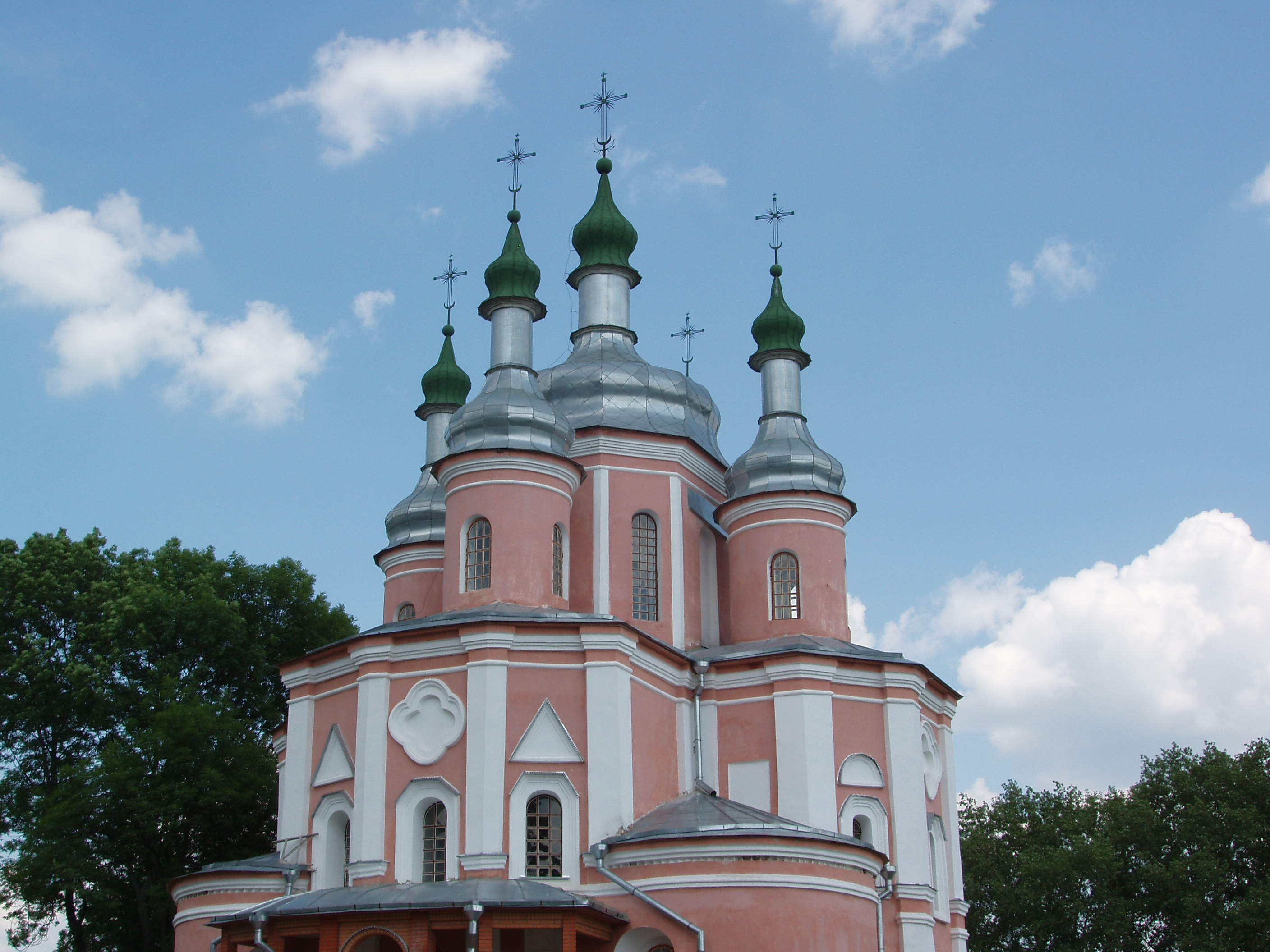 Church in Gustynskiy monastery, Ukraine